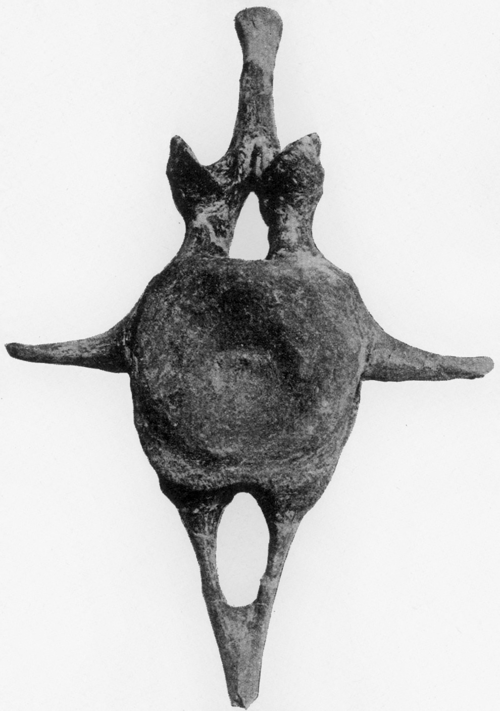 Tail vertebra of Ankylosaurus (specimen AMNH 5895).